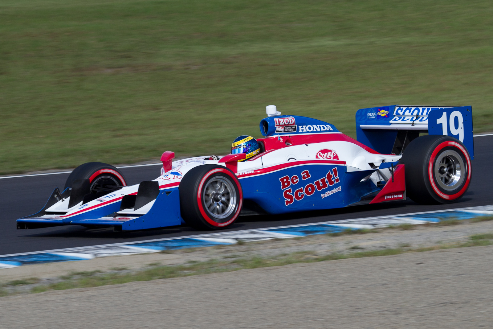 IndyCar Series 2011 Rd.15 Indy Japan 300: Sébastien Bourdais (Dale Coyne Racing)